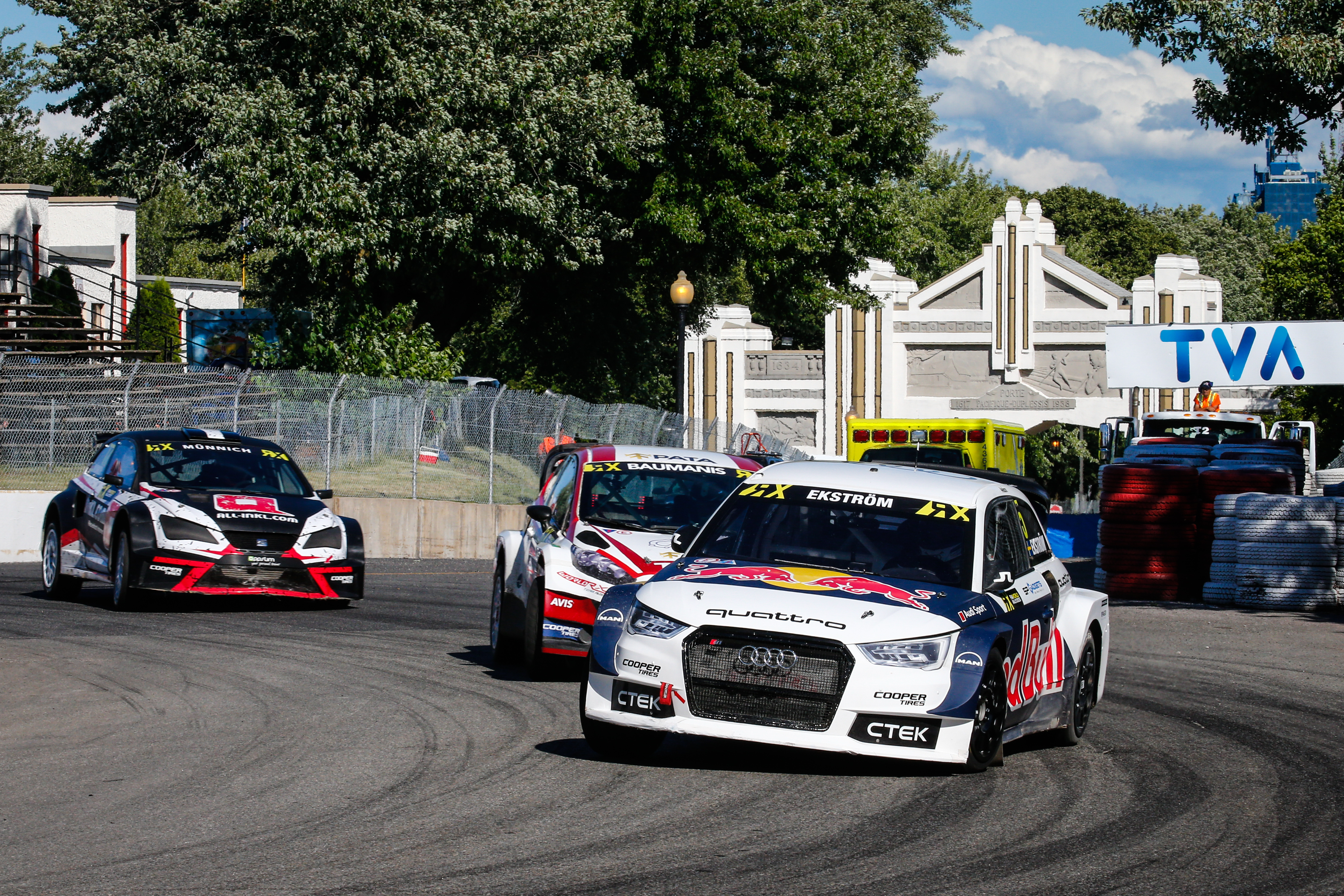 2016 FIA World Rallycross Championship / Round 07, Trois Rivieres, Canada / August 05-07 2016 // Worldwide Copyright: Colin McMaster/EKS/McKlein